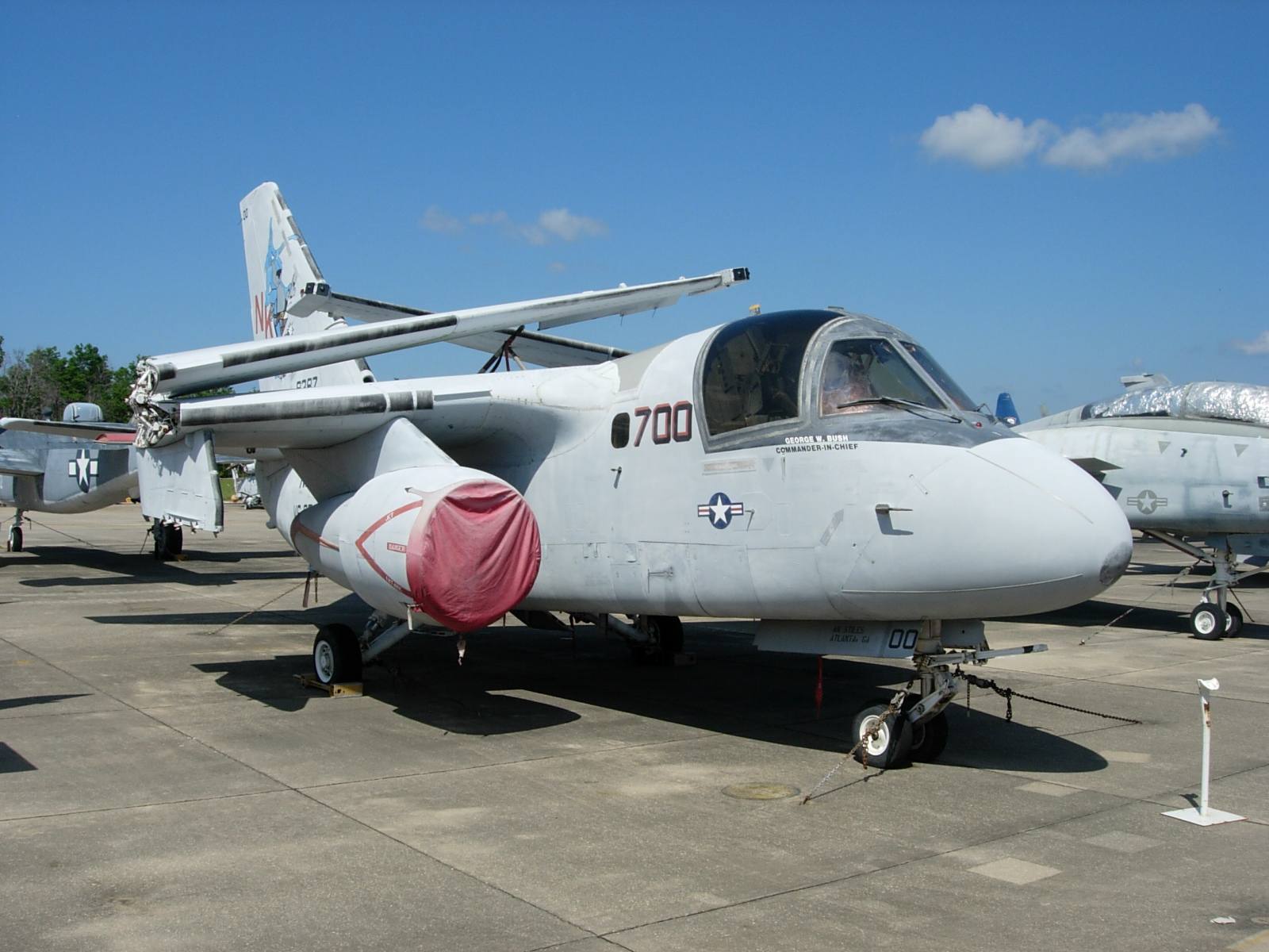 A U.S. Navy Lockheed S-3B Viking (BuNo 159387) at the National Museum of Naval Aviation, Pensacola, Florida (USA). This aircraft made history on 1 May 2003 when the former U.S. president George W. Bush was a passenger during a carrier arrested landing on board the aircraft carrier USS Abraham Lincoln (CVN-72). It was assigned to sea control squadron VS-35 Sea Wolves, Carrier Air Wing 14 (CVW-14). Just two months later it was accepted by the museum as an exhibit and as at September 2008 can be seen on the backlot tour. It was the first time that a U.S. president arrived on a carrier by plane, and not by ship or helicopter. The S-3B was therefore designated "NAVY ONE" for this flight (in correspondance with the presidential Boeing E-4B "Air Force One" aircraft, which is, however, operated by the USAF).